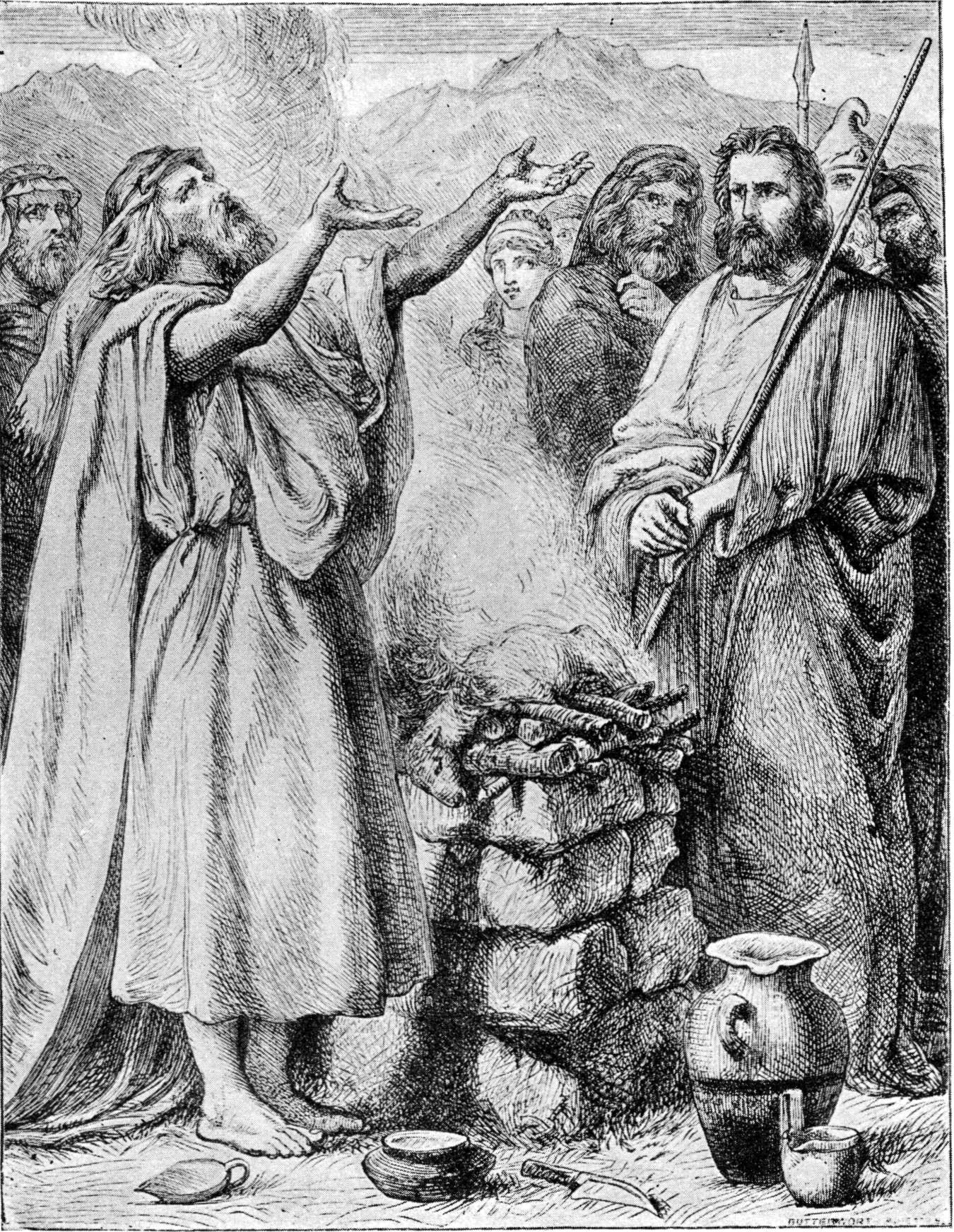 Offering Up a Burnt Sacrifice to God. Caption: "This man is offering up a burnt sacrifice to God. When an Israelite wanted to thank God for having helped him, he took a lamb out of his flock, and killed it, and put it on an altar. Then he set fire to it and burned it up. This was called a burnt sacrifice. In the tabernacle which the Israelites built, the priests offered up a sacrifice of two lambs every day. This was for all the people." Illustration from the 1897 Bible Pictures and What They Teach Us: Containing 400 Illustrations from the Old and New Testaments: With brief descriptions by Charles Foster